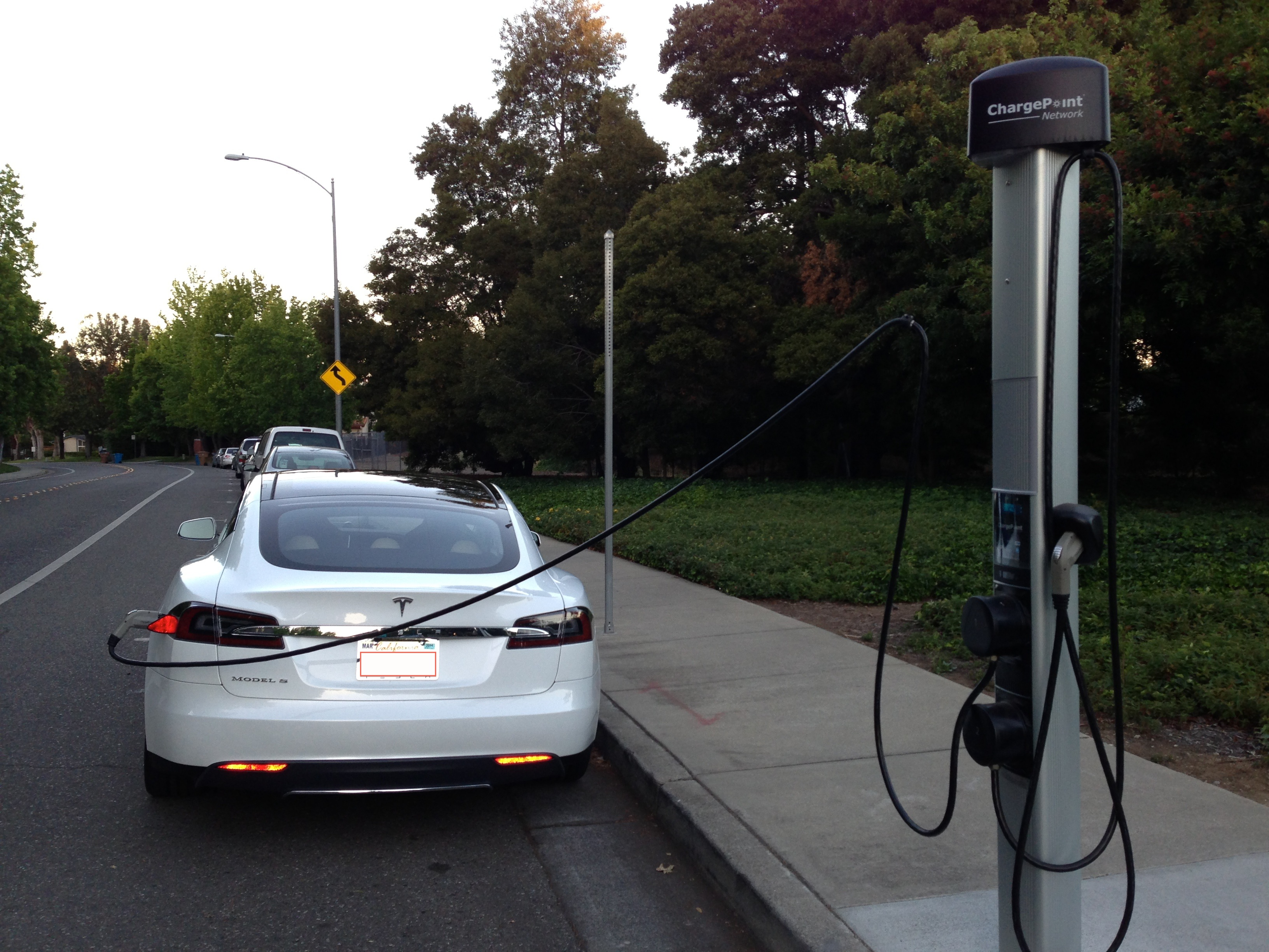 This Tesla model S is being charged.